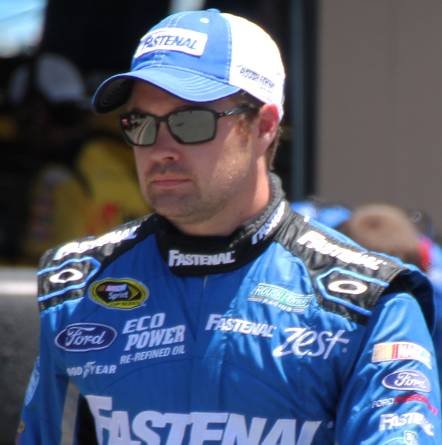 Ricky Stenhouse Jr at the 2015 Toyota/Save Mart, Sonoma, California